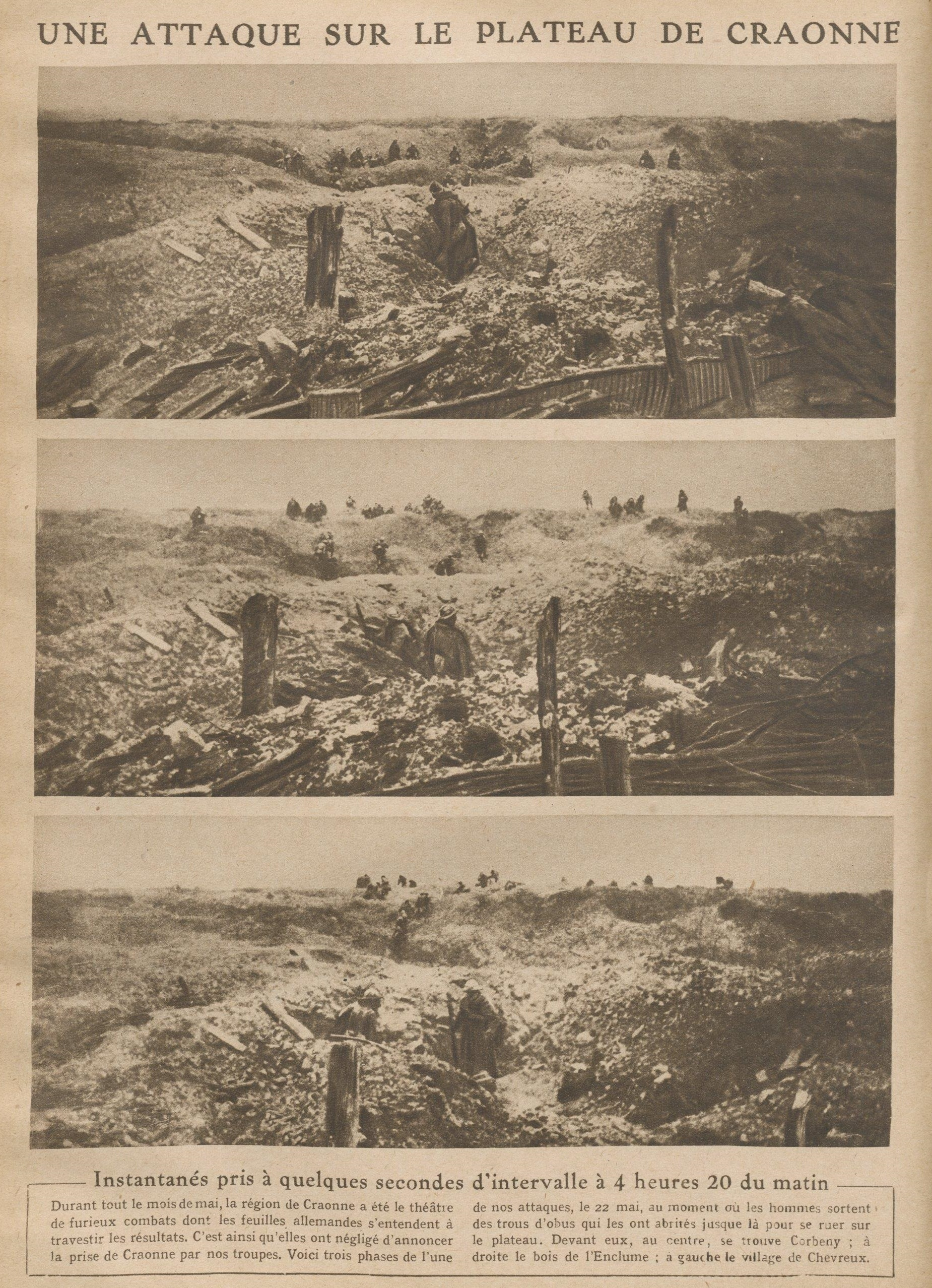 Three views of a French attack on Craonne in 1917, in the village sector Corbeny. The text below, subject to censorship and propaganda speaks of French victory. Photographs published by the French weekly Le Miroir June 10, 1917.